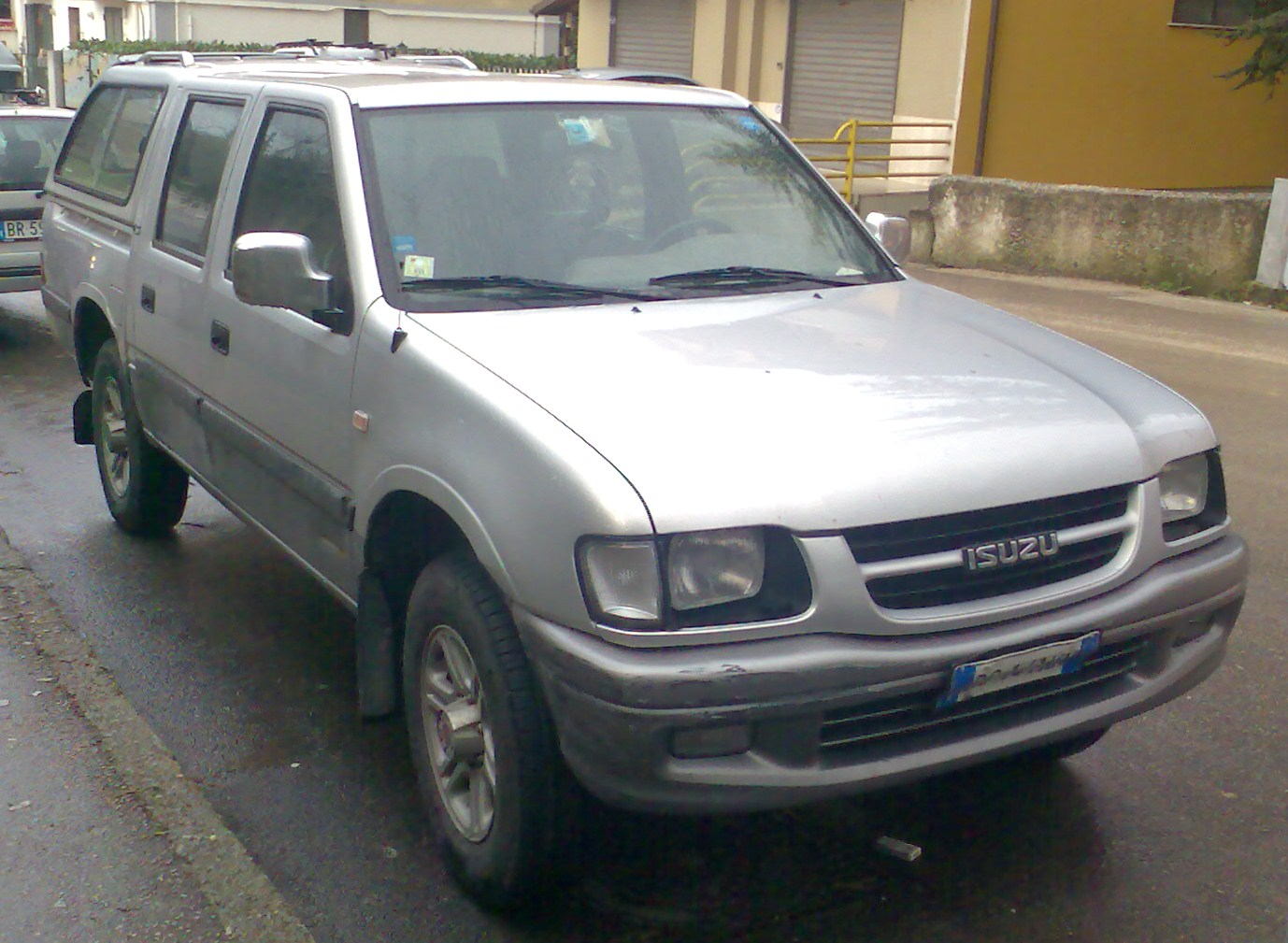 Isuzu TF pickup Euro specification